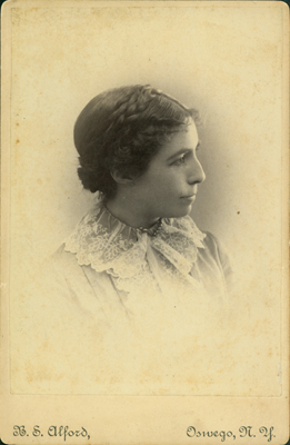 A portrait of Mary Sheldon Barnes, undated.